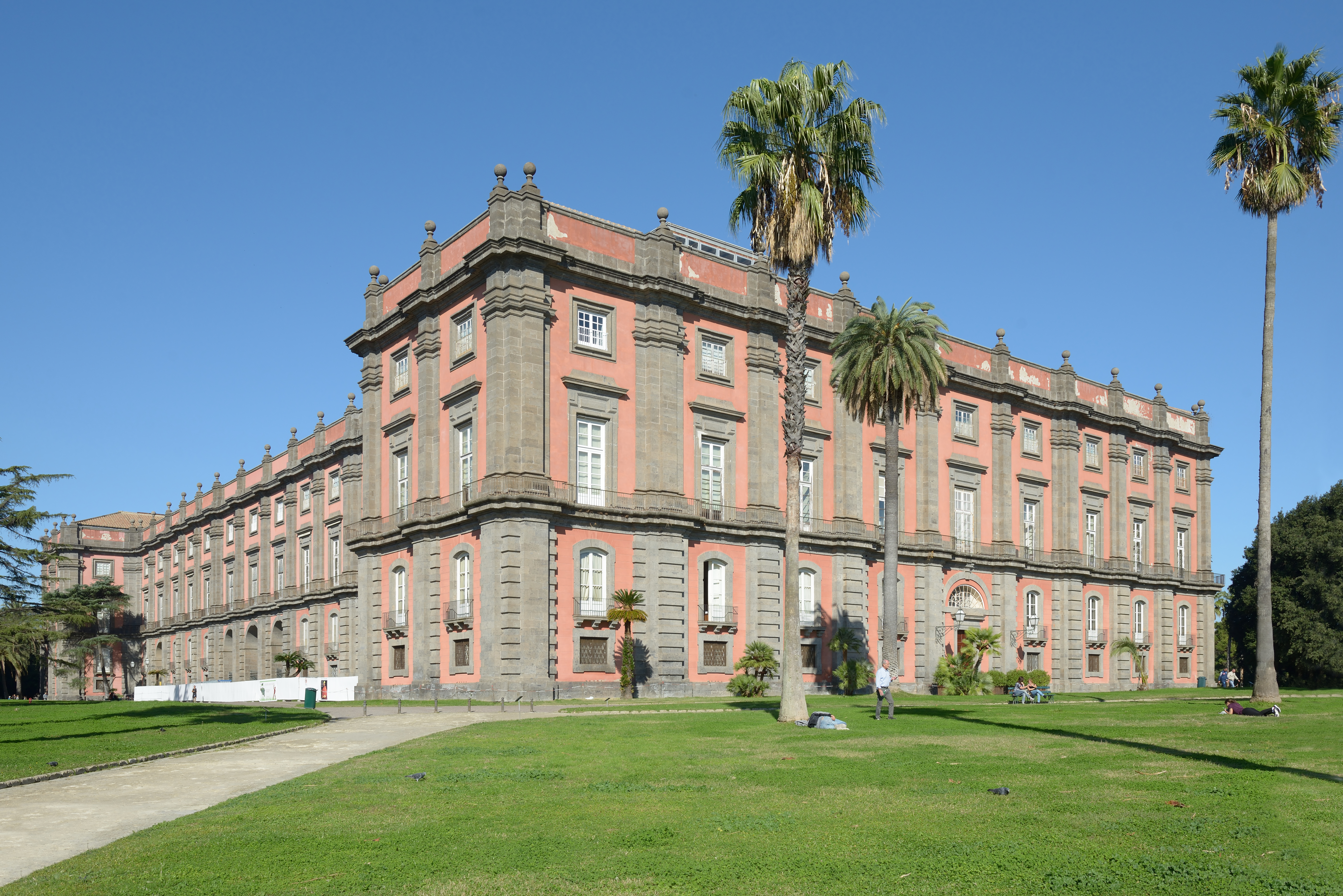 View of the south-west facade of the Museo di Capodimonte in Naples.